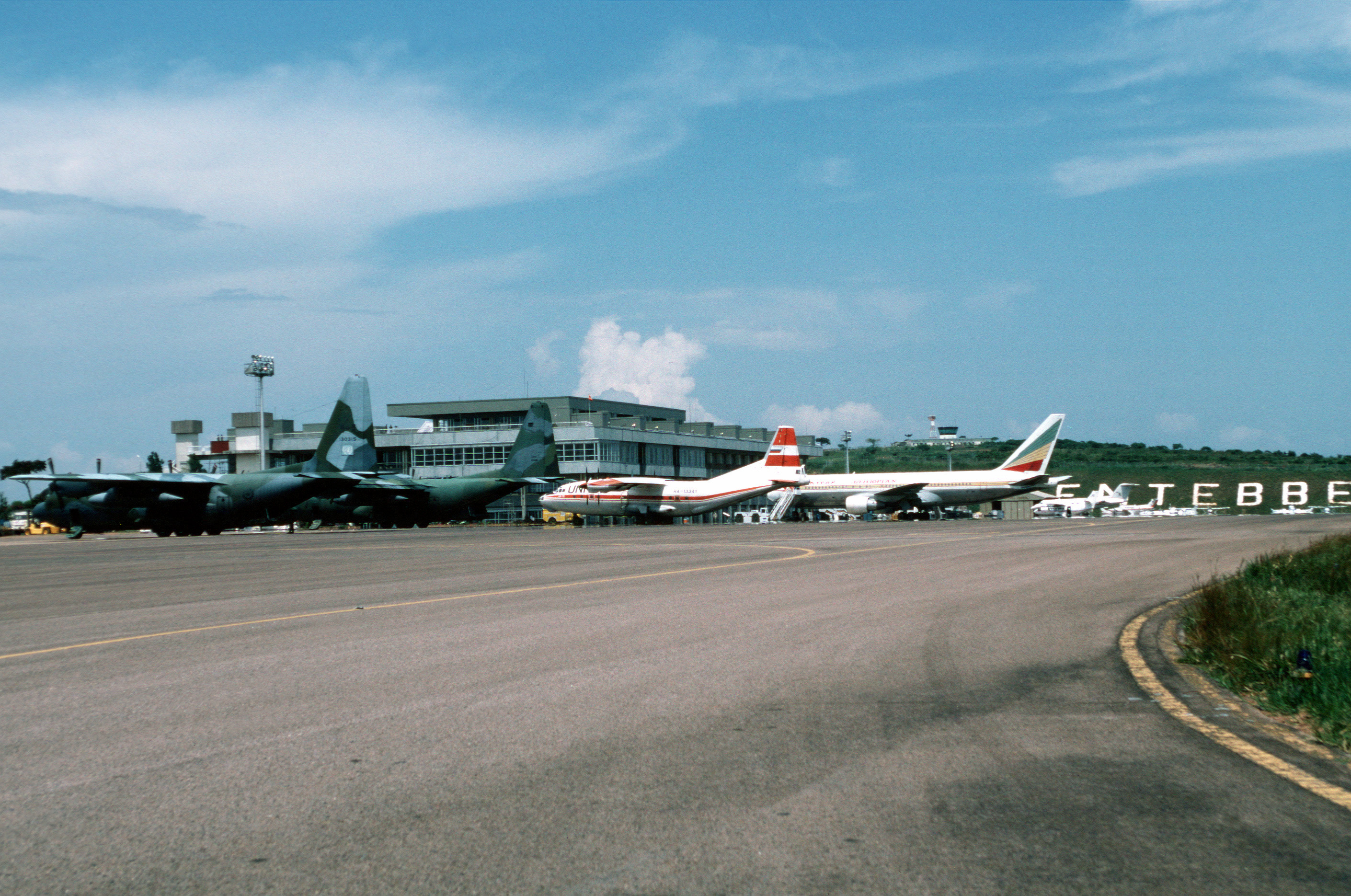 A wide angle view of the airfield at Entebbe, Uganda showing two C-130 Hercules aircraft and two commercial aircraft. From Airman Magazine's December 1994 issue article "Will You Please Pray for Us?" -Relief for Rwandan Refugees.